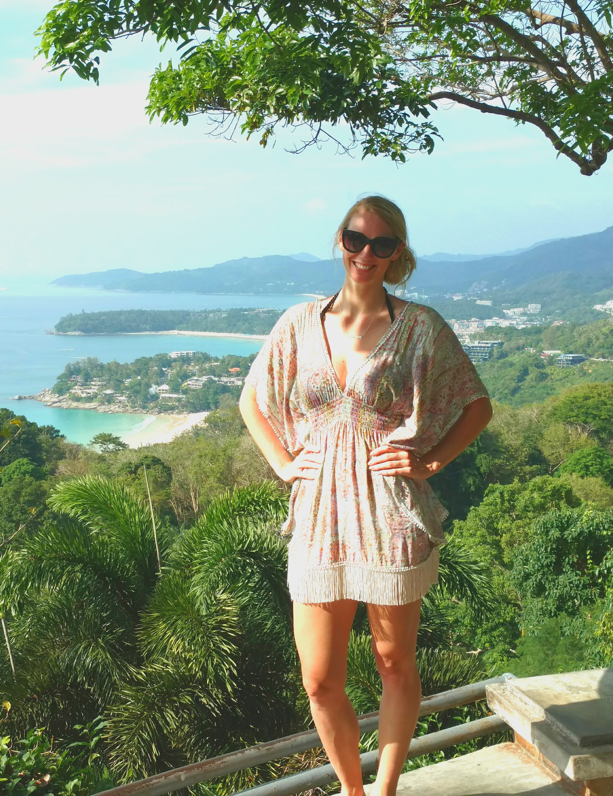 Ashley Frazier at Karon Viewpoint